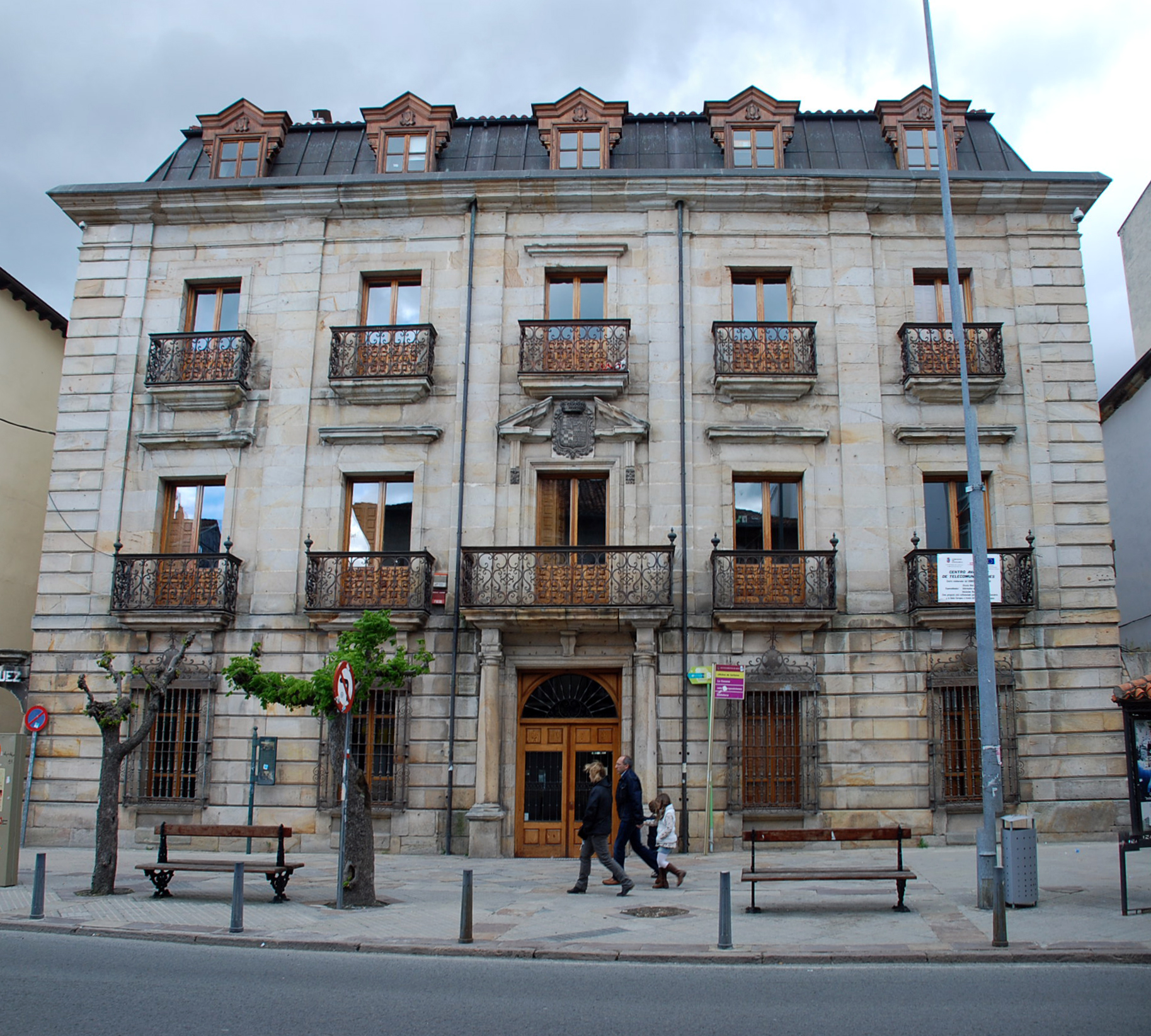 La Casona palace in Reinosa (Cantabria).